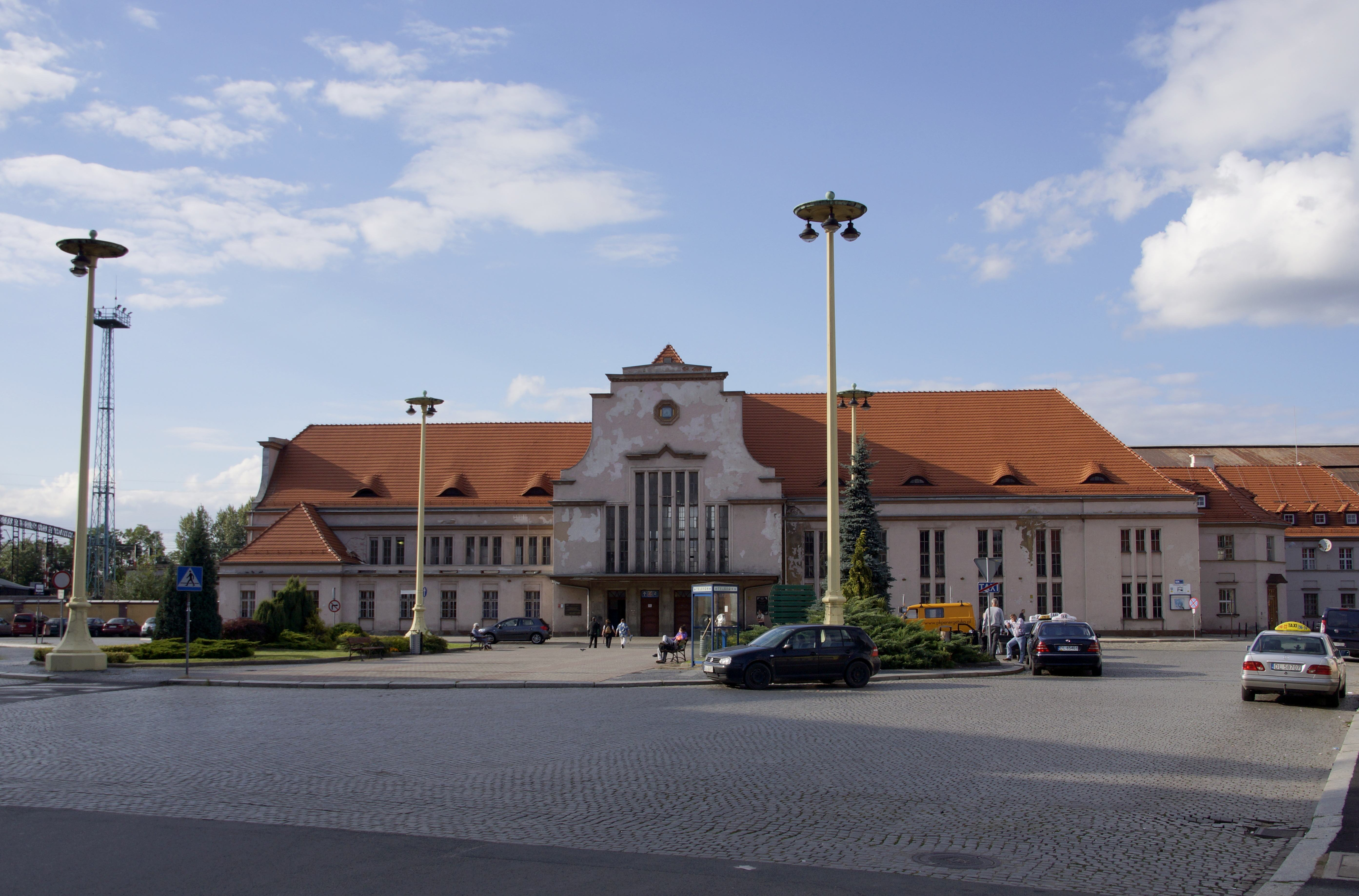 Legnica train station